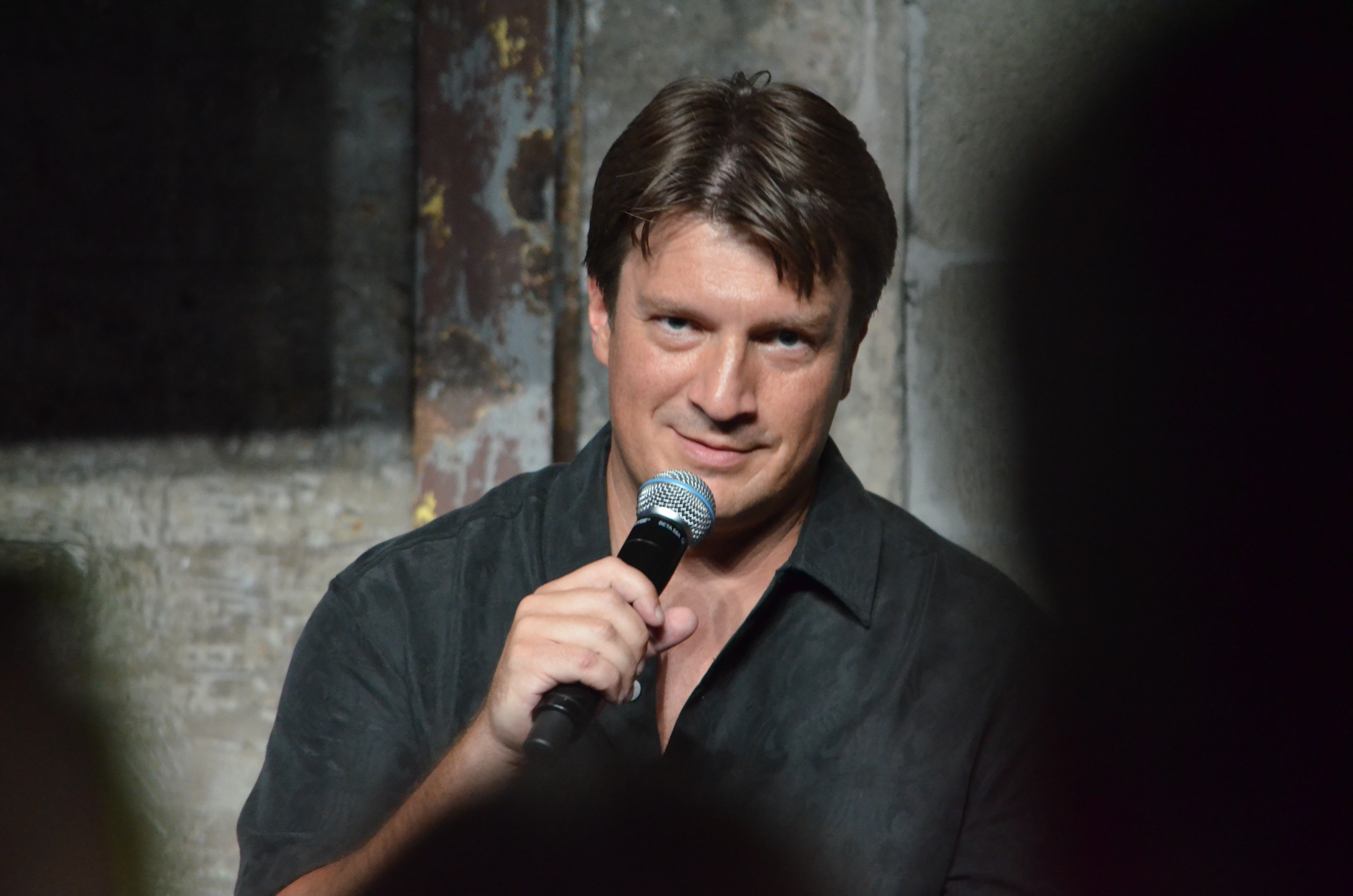 Nathan Fillion